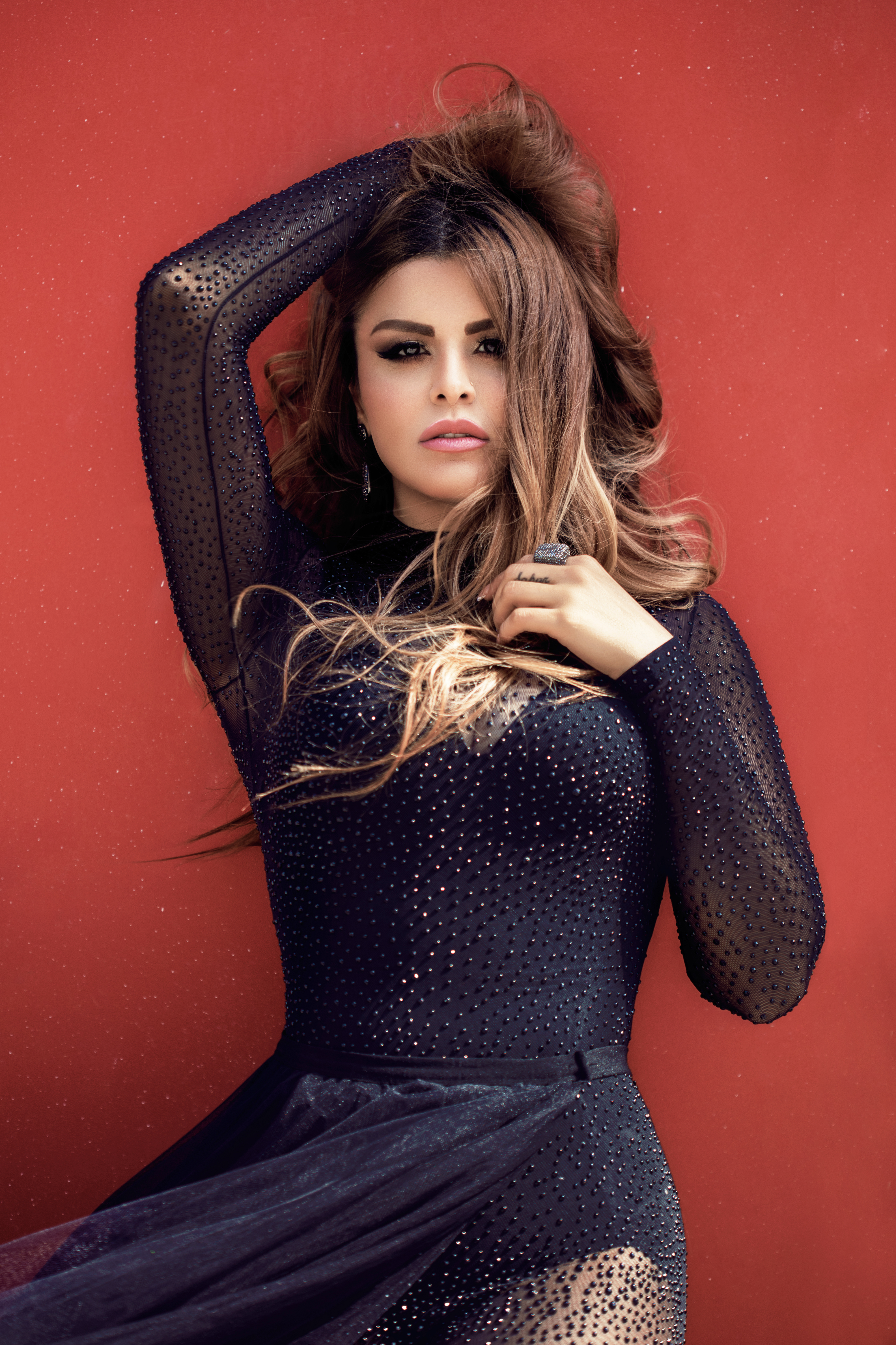 Sahar Moghadass (born 4 December 1985 in Tehran) Persian vocalist, musician and dancer.